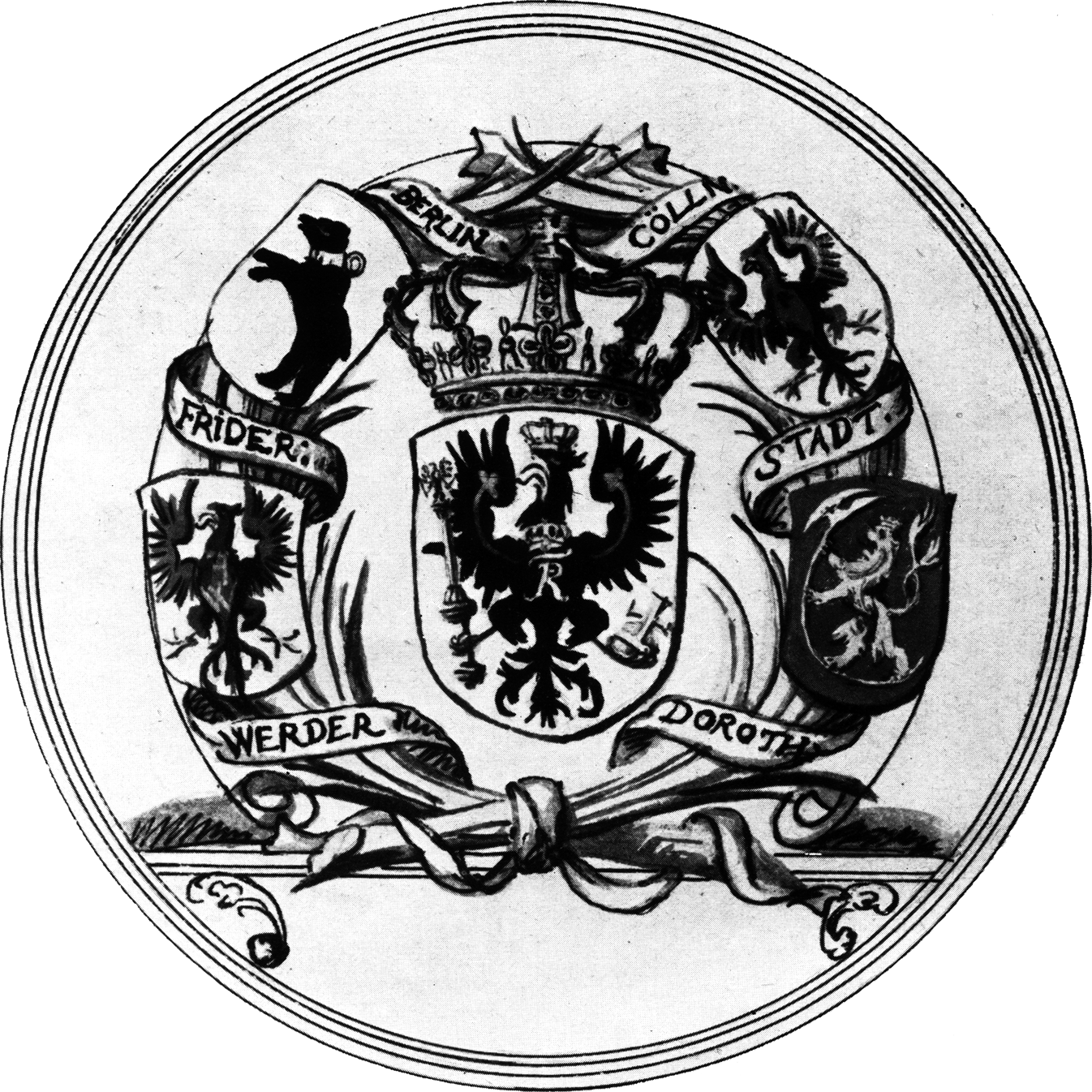 Draft of seal of Berlin from 1709.